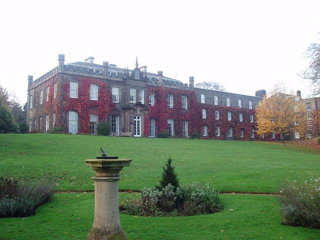 Hugh Stewart Hall, a hall of residence on University Park Campus, University of Nottingham